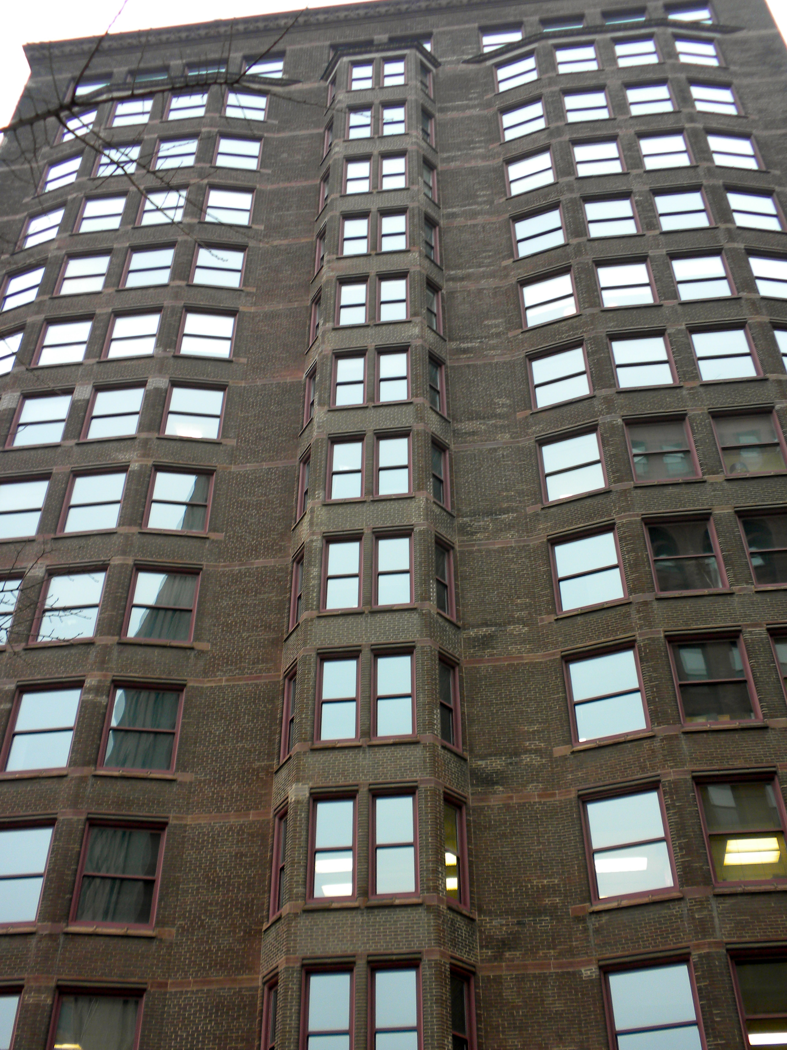 Pontiac Building on NRHP since March 16, 1976 at 542 S. Dearborn Street in Chicago Loop